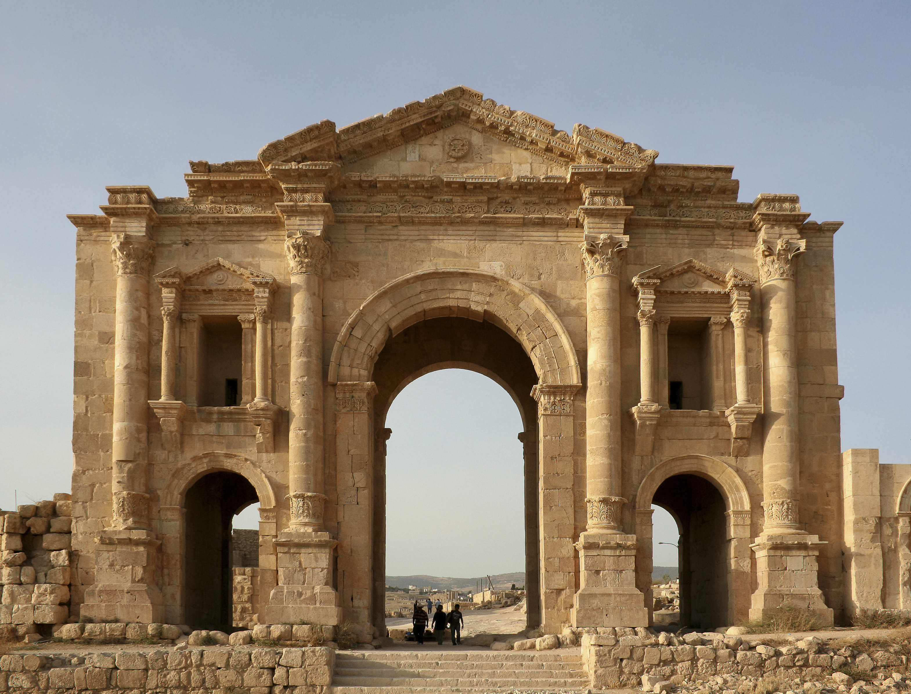 Arch of Hadrian, Jerash, Jordan